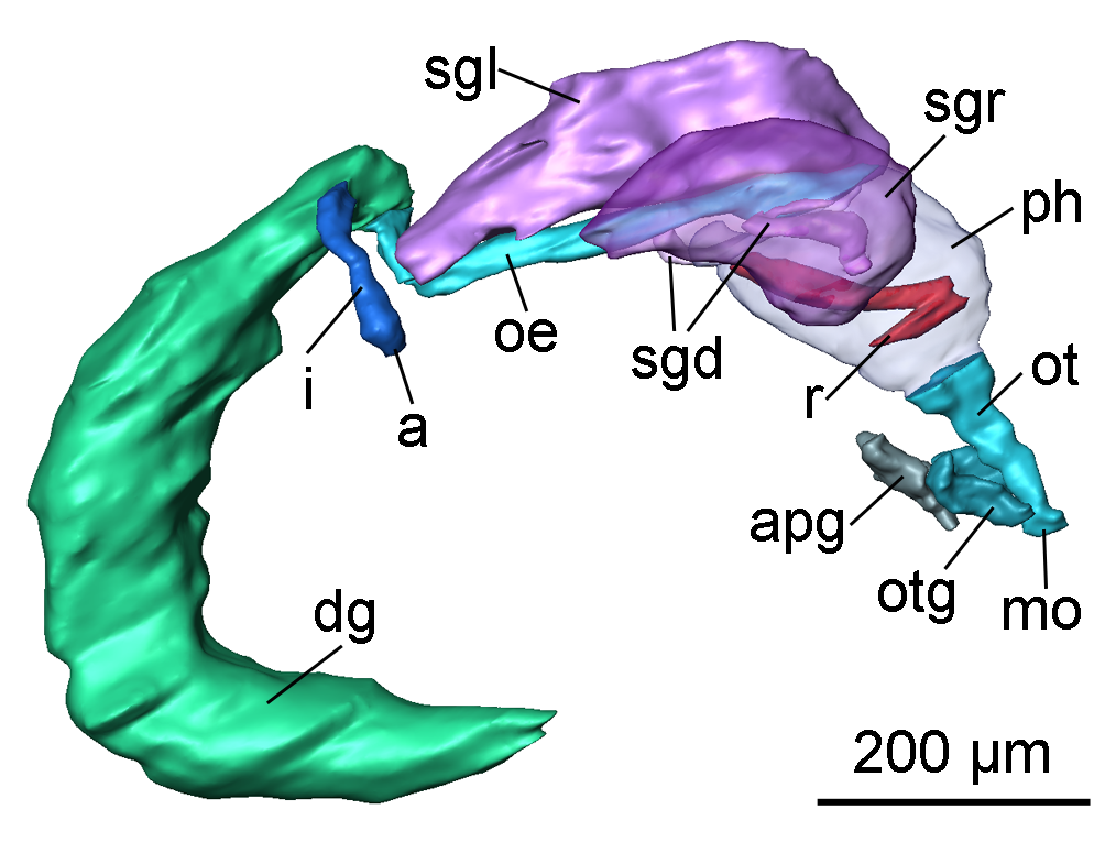 3D reconstruction of the right view of digestive system of small marine slug Pseudunela cornuta. mo - mouth otg - oral tube gland apg - anterior pedal gland ot - oral tube r - radula ph - pahrynx sgl and sgr - salivary glands sgd, salivary gland duct oe - oesophagus i - intestine a - anus dg - digestive gland = hepatopancreas. It is a 3D model generated from 420 histological sections by segmentation and surface extraction. - The histological sections have been aligned and stacked together to form a 3D volume, which was then segmented. For each segment mathematical representation of its surface was generated (boundary surface extraction) and then this 3D model was visualized by rendering the surfaces.